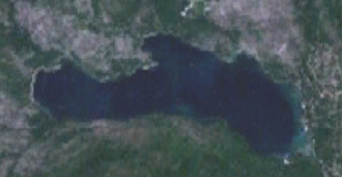 Cultus Lake in Oregon, USA NASA NLT Landsat 7 image. Final image made using NASA World Wind.